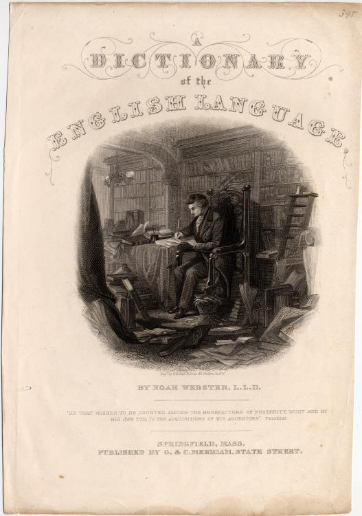 Title page of "A Dictionary of the English Language," written by Noah Webster, L.L.D. Springfield, Mass. Published by G. & C. Merriam. State Street.